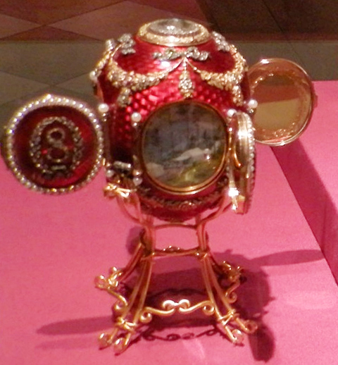 Caucasus Fabergé egg at Metropolitan Museum